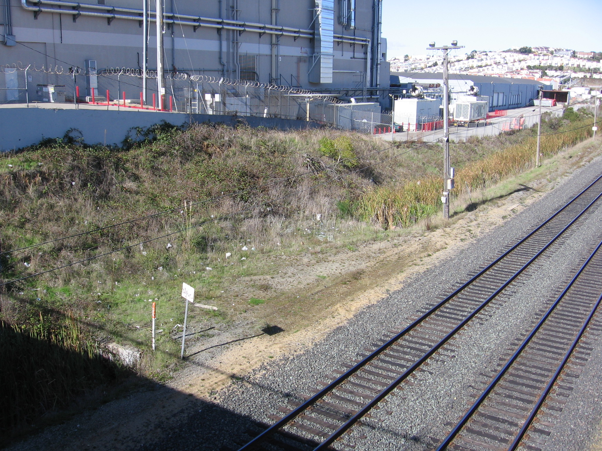 The former Paul Avenue (Caltrain station) in San Francisco, California, USA. The station lean-to used to sit in the flat patch of ground adjacent to the far track. This view is from the eastern end of the Paul Avenue bridge looking northwest.